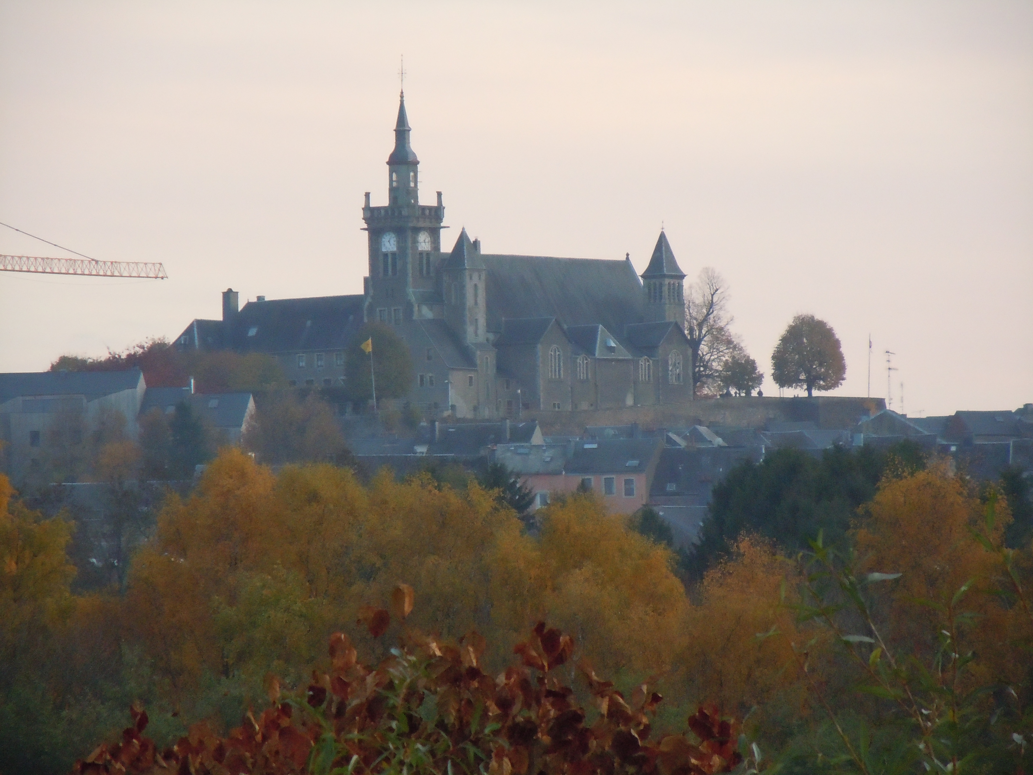 St. Donatus' church in Arlon, Belgium. Northern view from the cemetery.